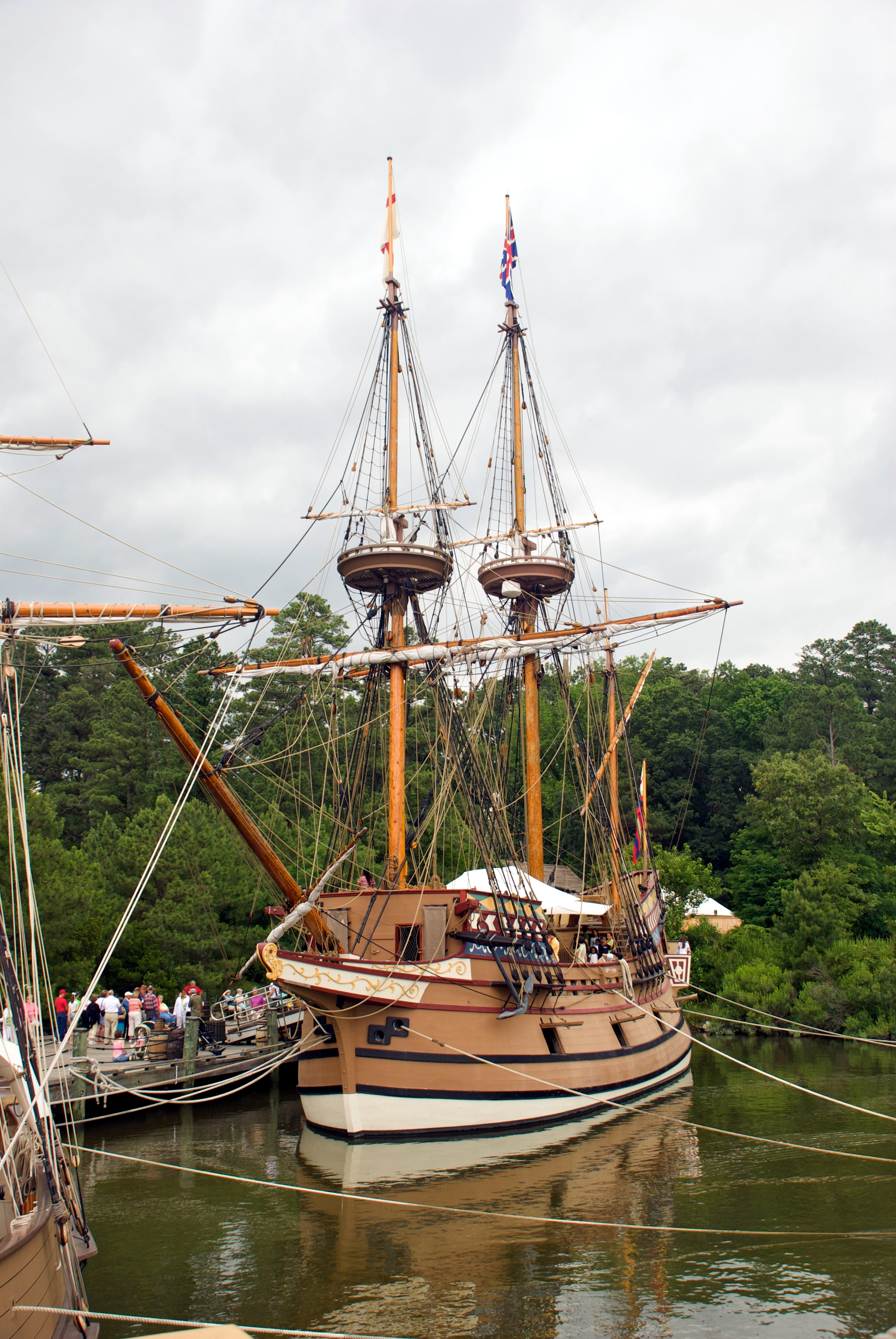 Replica ship Susan Constant in port at Jamestown Settlement, a living history museum